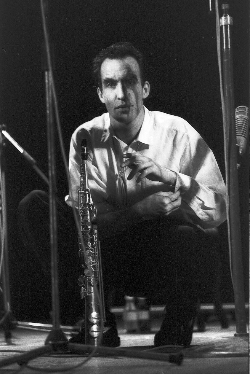 John Lurie Jazz Jamboree 1992